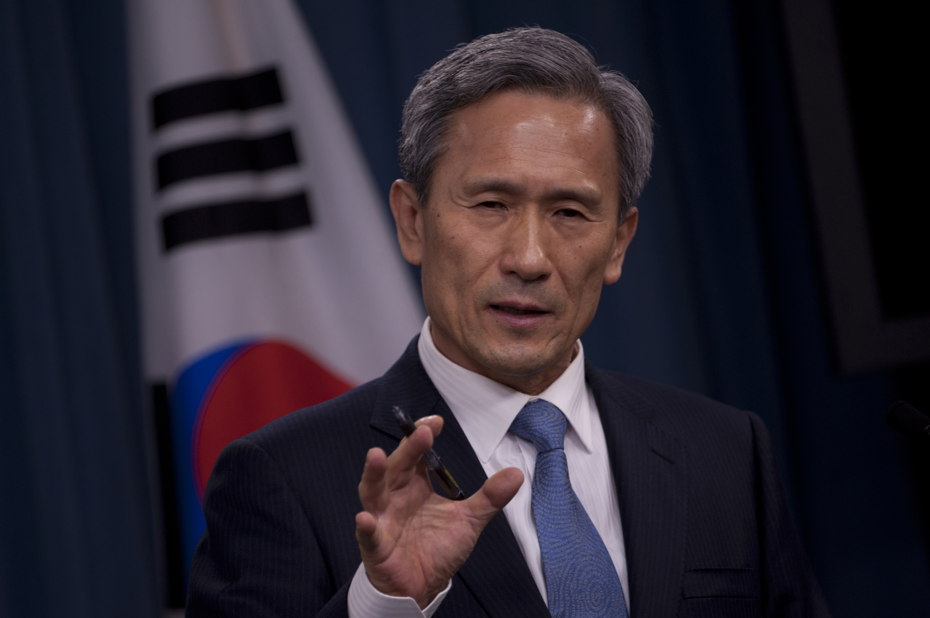 South Korea's Minister of National Defense Kim Kwan-jin makes a point during a joint press conference with Secretary of Defense Leon E. Panetta in the Pentagon on Oct. 24, 2012. Panetta and Kim, along with their senior advisors and foreign affairs officials, met earlier for the 44th U.S.-Republic of Korea Security Consultative Meeting.